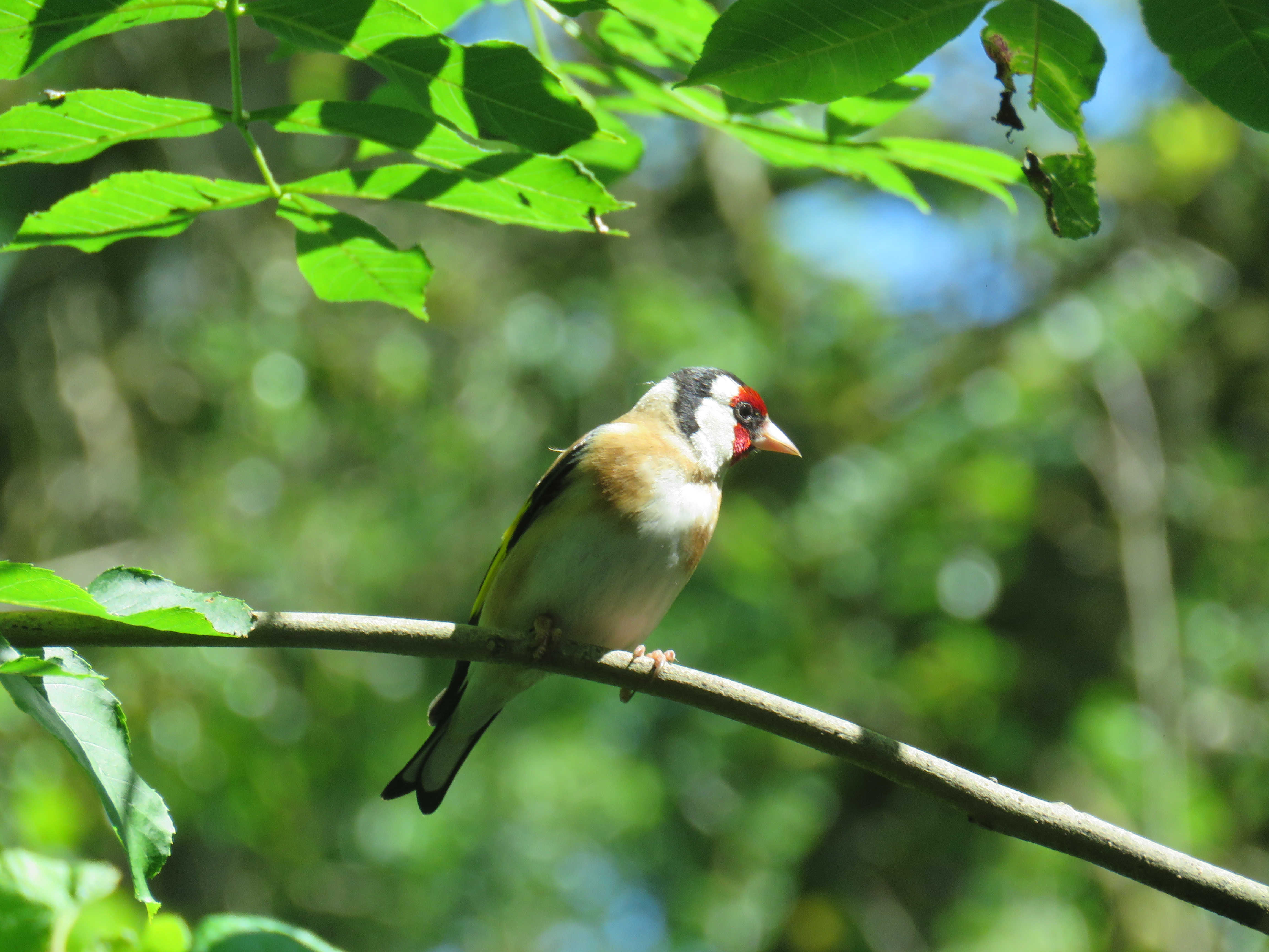 goldfinch from Coed y Capel hide, RSPB reserve, Lake Vyrnwy, Powys, Wales